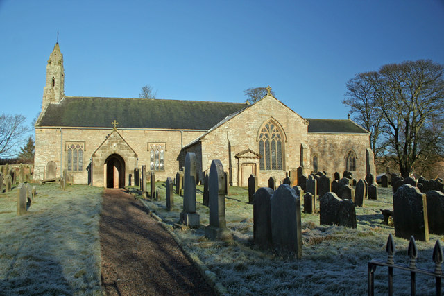 St Cuthbert's Church St Cuthbert's Church in Elsdon on a cold January morning.